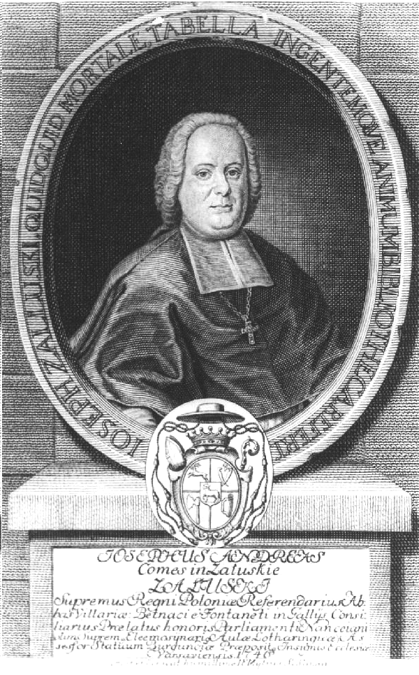 Józef Andrzej Załuski